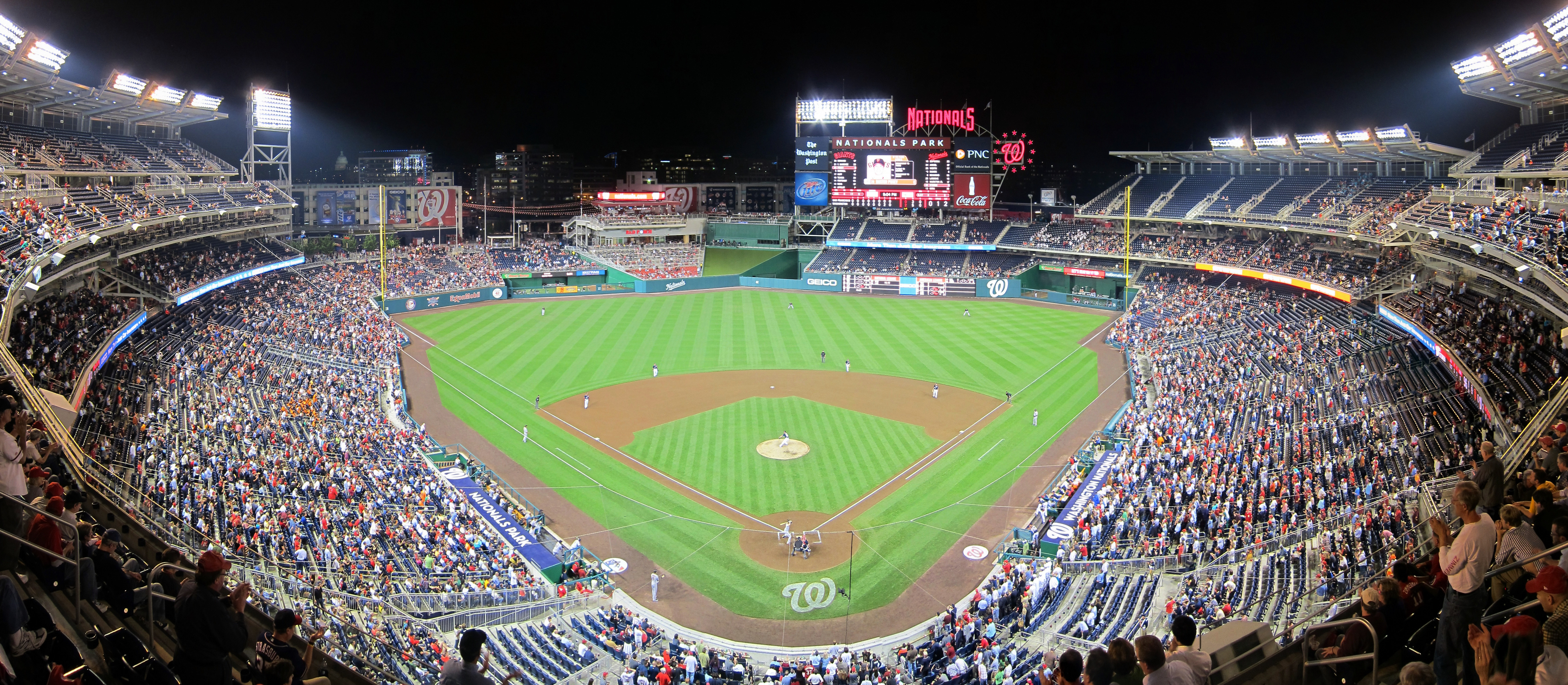 A segmented panorama of Nationals Park. The images were taken from behind home plate during a home game between the Washington Nationals and the San Francisco Giants. Original photographs taken on May 2, 2011. The United States Capitol dome is visible just to the left of the left field foul pole.